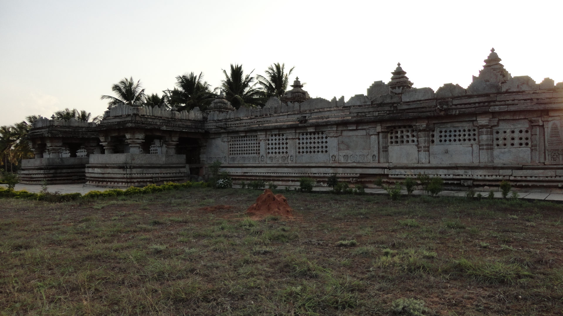 This is the complete coverage of the eastern front part of the Panchlingeshvara temple, Govindanahalli, Mandya, Karnataka. This depicts both of the front and only entrances of the temple.